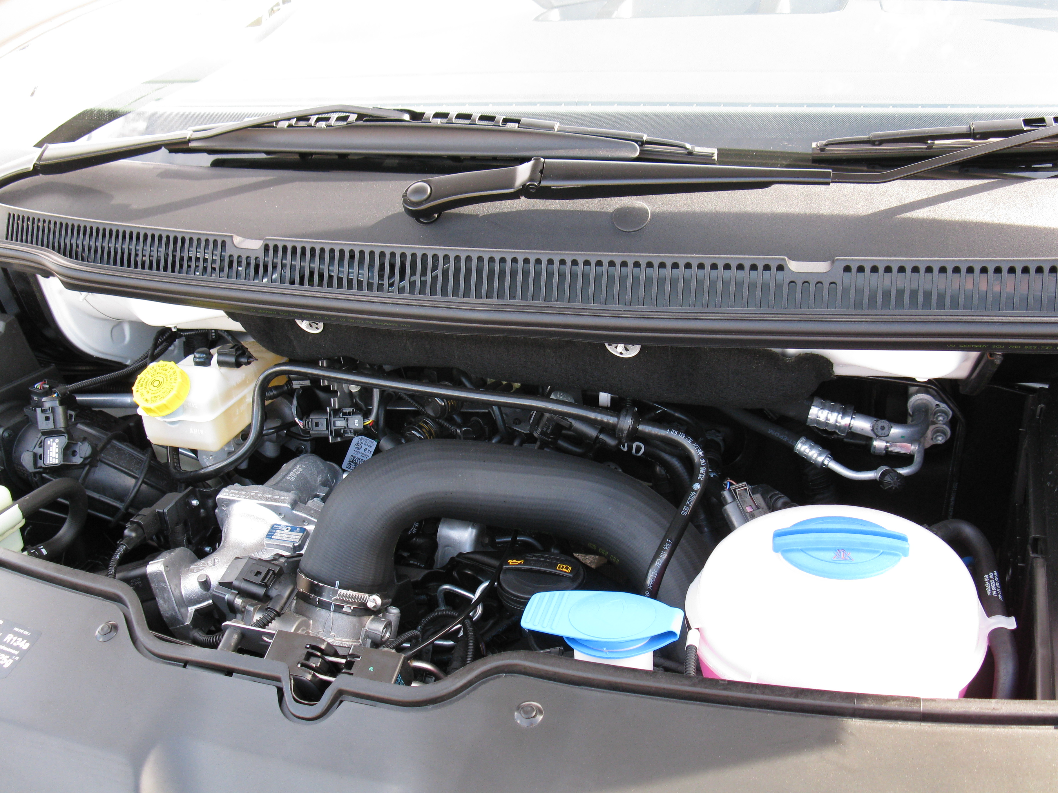 Volkswagen 2.0 BiTDI 132kW from a Transporter Panel Van in Australia